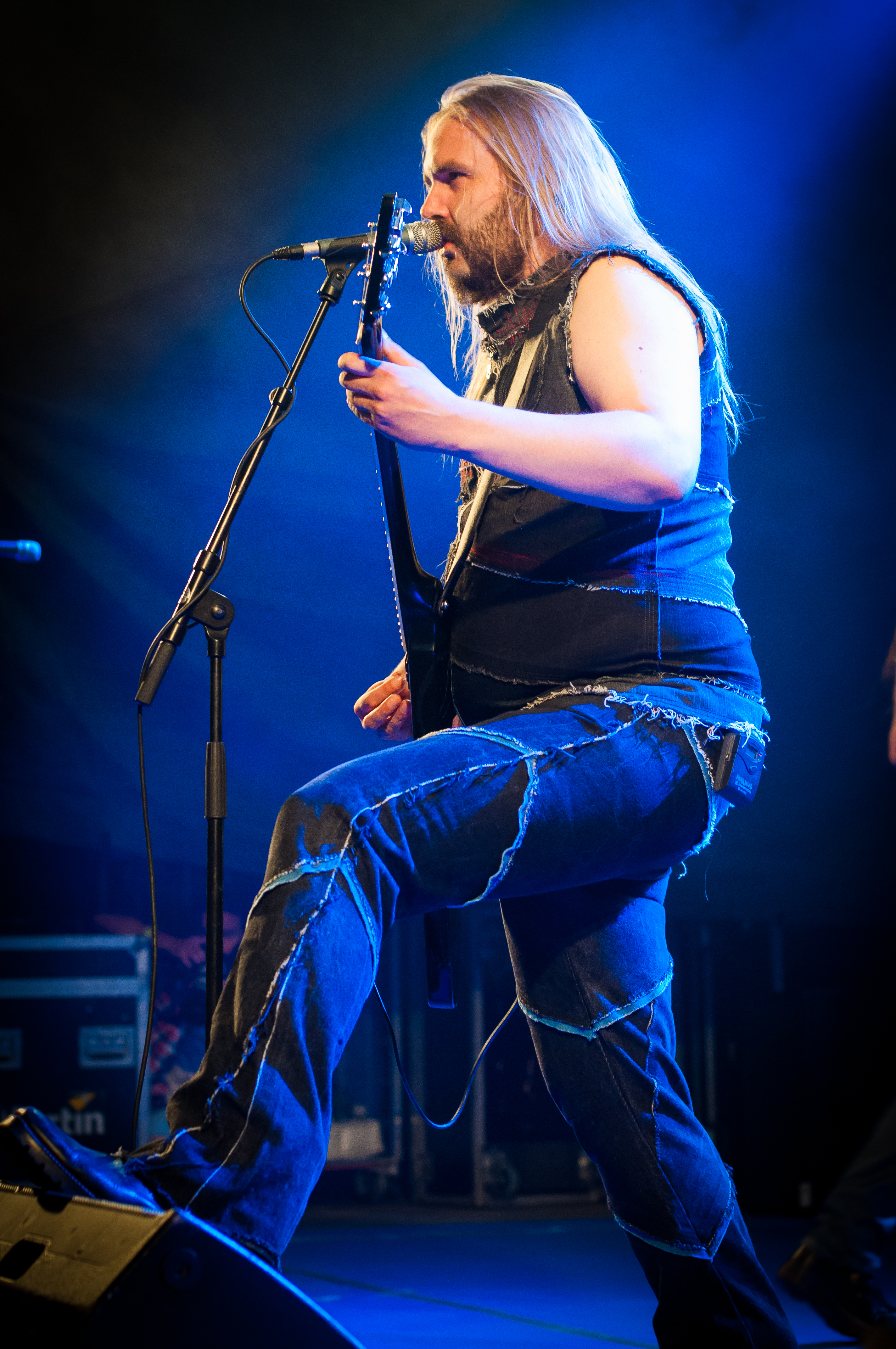 Markus Teeäär of Metsatöll performing at the 2014 Rakuuna Rock festival in Lappeenranta, Finland.